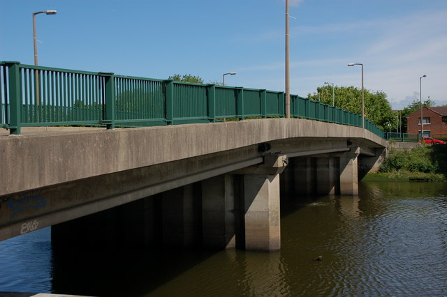 The Governor's Bridge, Belfast. The Governor's Bridge, across the River Lagan, was built in the early 70's. It connects the Stranmillis and Annadale Embankments. It and the King's Bridge are part of a one-way traffic system. The view is towards the Annadale Embankment with the Lagan flowing from right to left. Continue to 1117732.